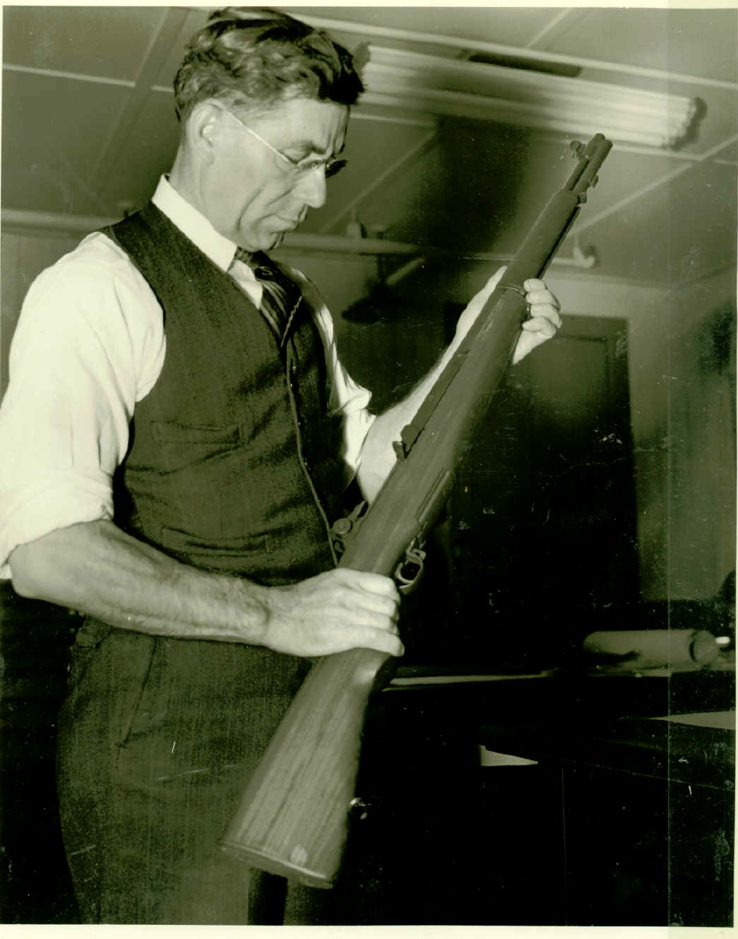 Springfield Armory was instrumental in the development of the renowned M1 Rifle in the lead up to World War Two. Springfield Armory employee John C. Garand is considered the father of the M1.